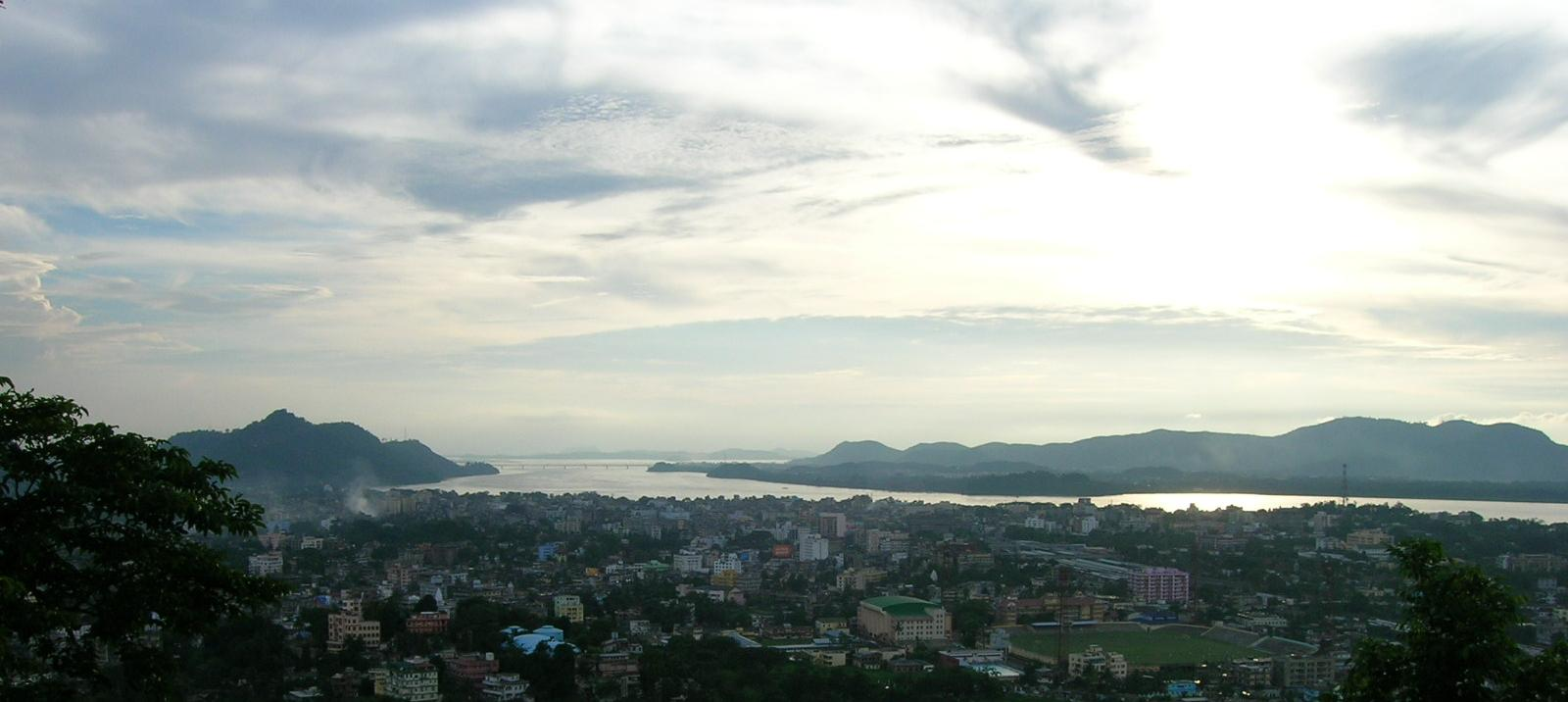 View of part of Guwahati from the Sarania Hills, with the Brahmaputra river. The peaked Kamakhya Hills are to the left, the Saraighat bridge can be seen near the horizon, and on the right bank is North Guwahati. The Nehru stadium and the railway station are faintly visible, lower right.